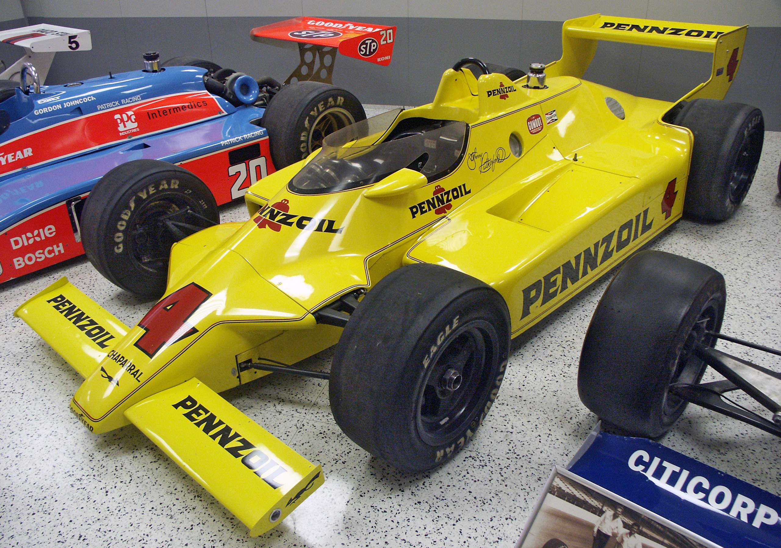 The John Barnard-designed Chaparral 2K-Cosworth in which Johnny Rutherford won the 1980 Indy 500 was the last of Jim Hall's famed Chaparral marque.